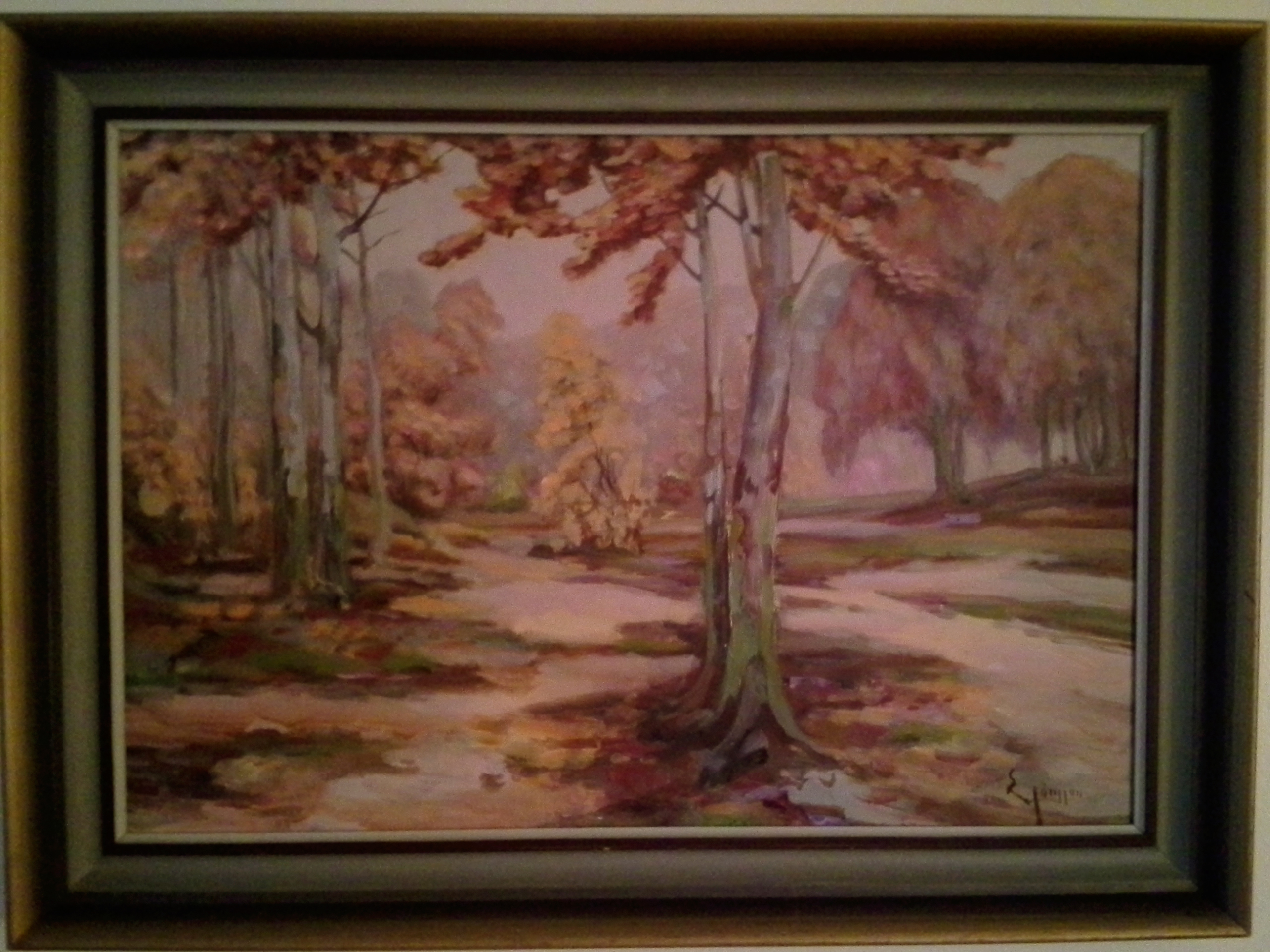 Photograph of E. Jönssons Oil painting